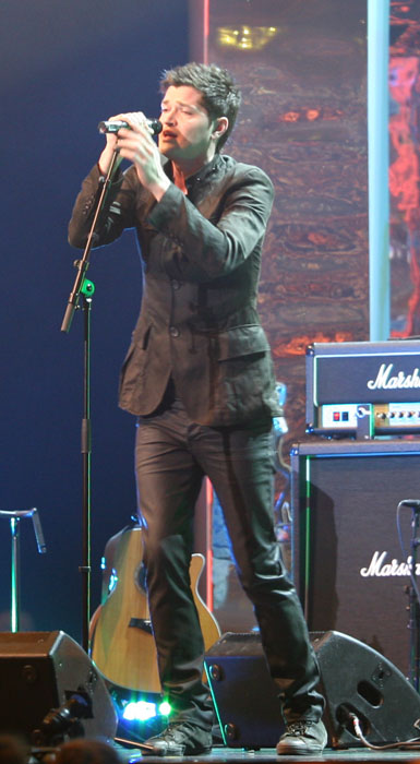 Nobel Peace Prize Concert 2008, The Script